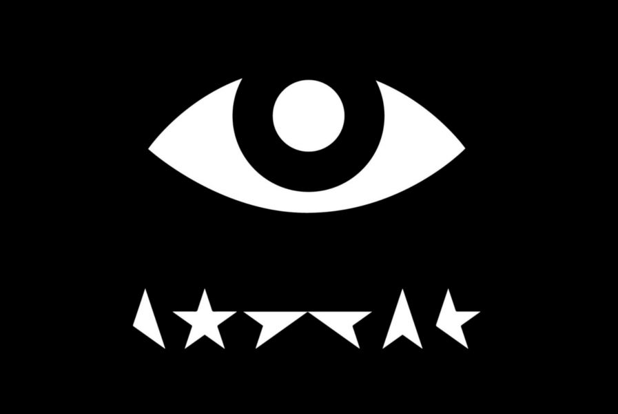 Lazarus single cover in wide layout.